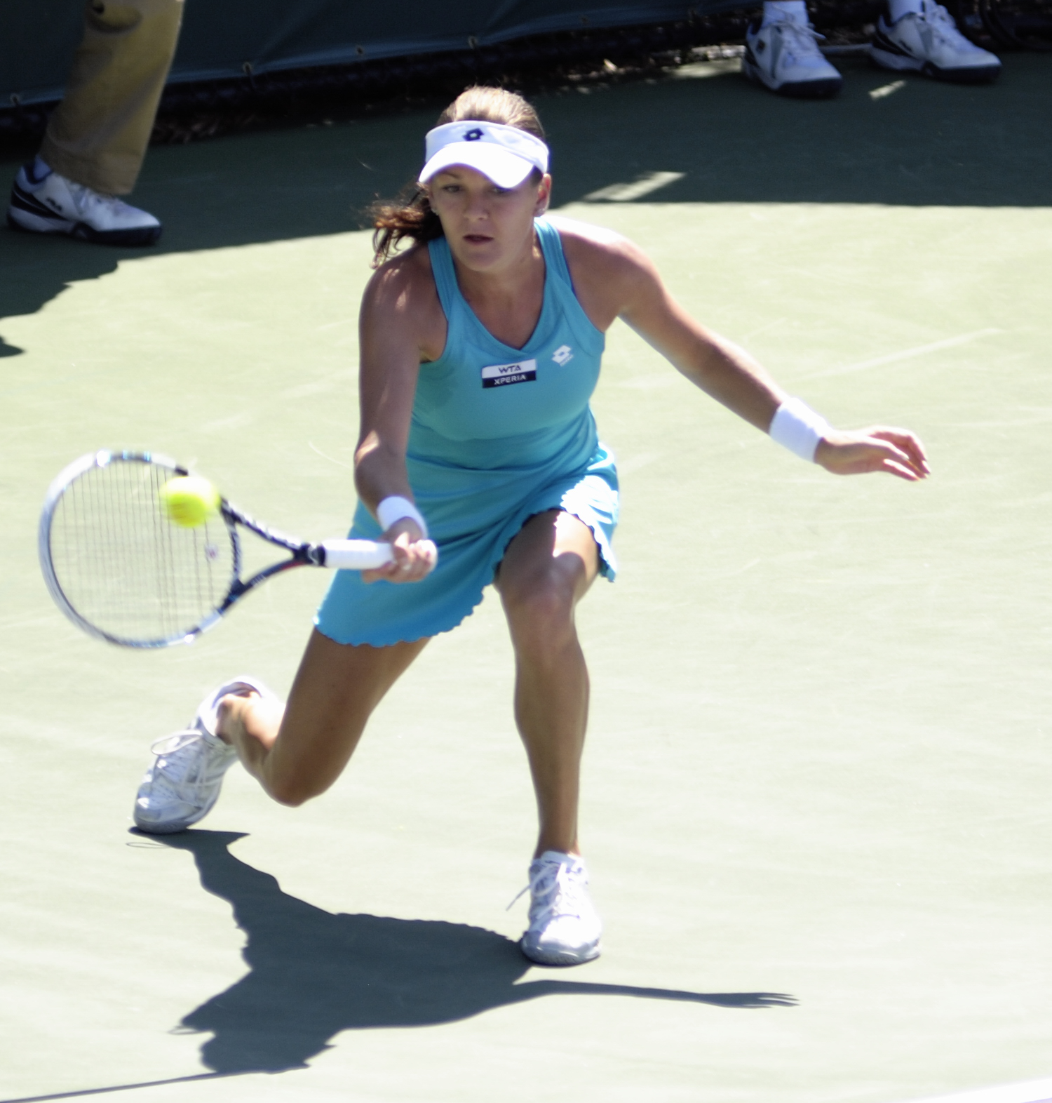 Radwankzska bends into a shot in Miami.